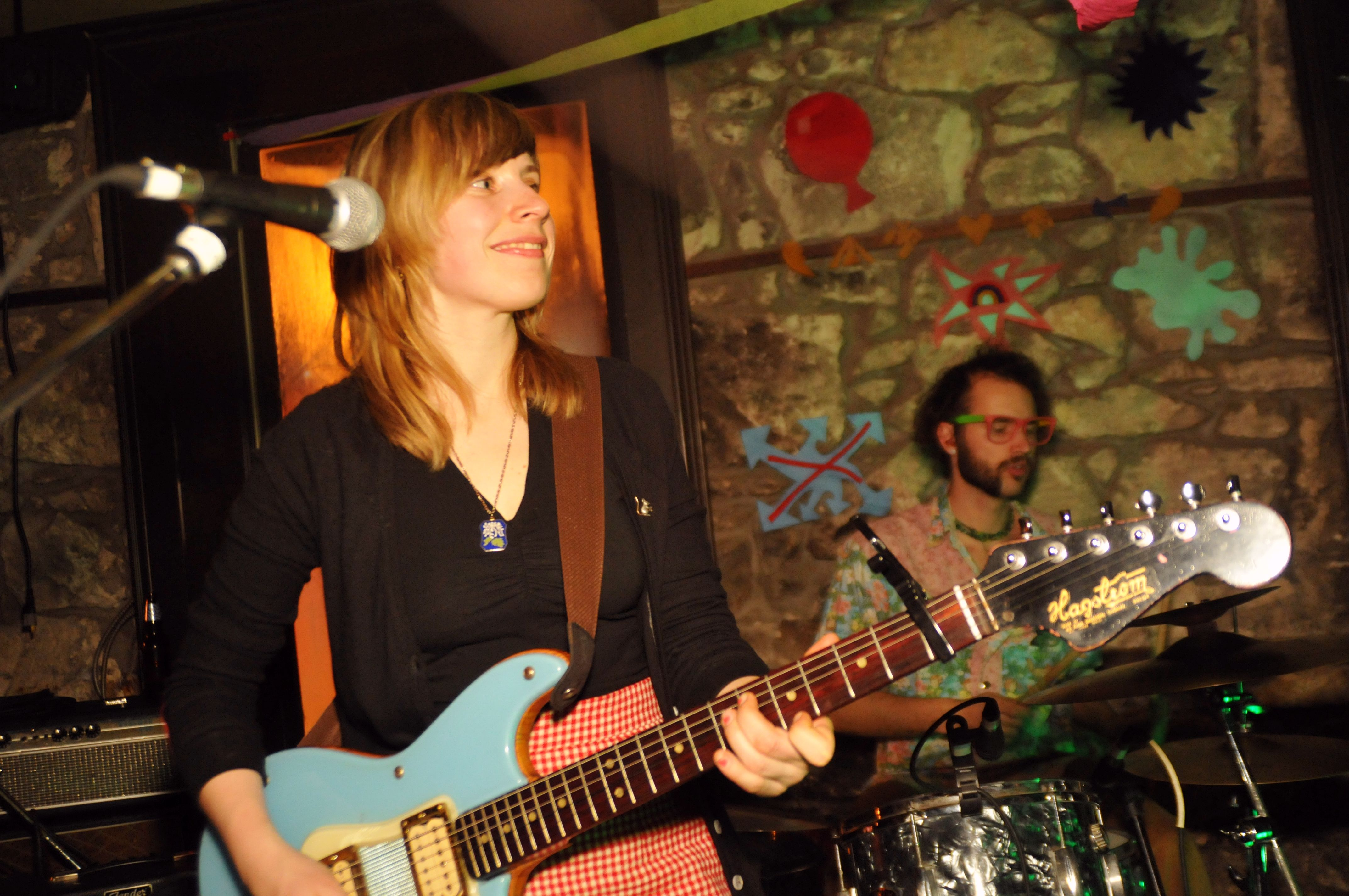 Kat Burns (left) and Christian Ingelevics of the Forest City Lovers, performing 17 January 2009 at the second anniversary of Out of This Spark at the Albion Hotel in Guelph, Ontario.